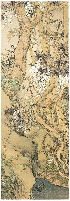 Late spring. Hanging scroll, colour on silk. By Matsubayashi Keigetsu in 1926.